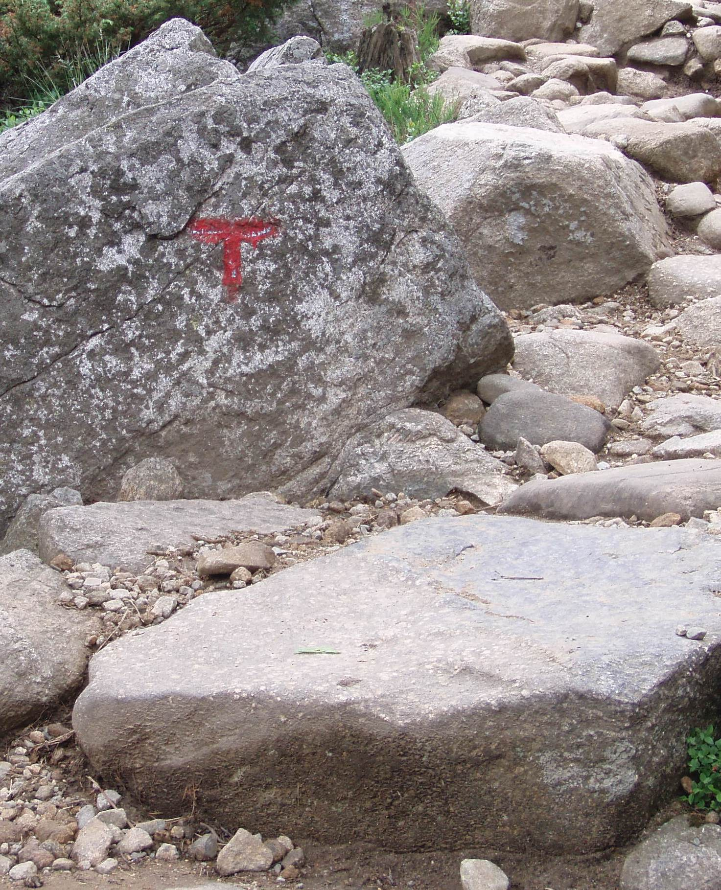 The red "T" used by Den norske Turistforening to mark footpaths in Norway. Photo taken by Ståle Johnsen (the uploader)